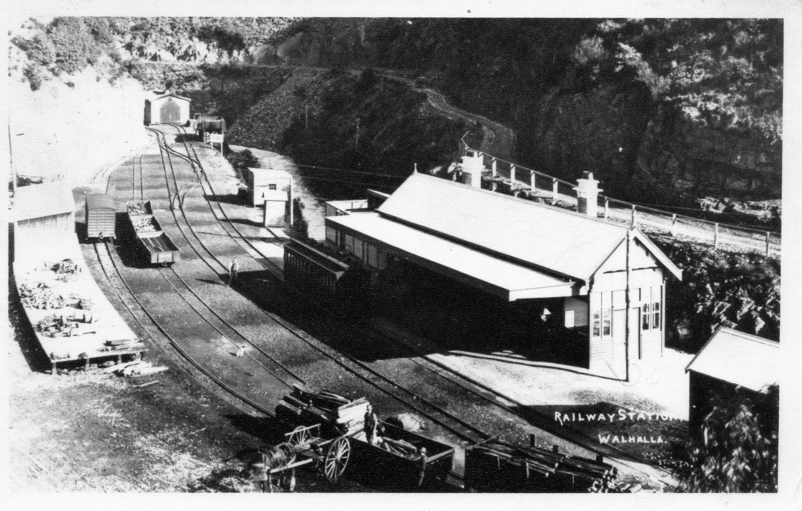 Historic photo of Walhalla railway station ~1910